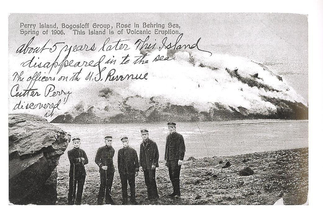 Postcard of the U.S. revenue cutter Perry poses with Perry Island behind them. Perry Island was near Bogoslof Island in the Bering Sea. It arose in a volcanic eruption in 1906, witnessed by the crew of the Perry, and sank back under the sea about 5 years later. The handwriting on the card is that of J. E. Standley, founder of Ye Olde Curiosity Shop (Seattle, Washington). The cards were for sale in the shop.